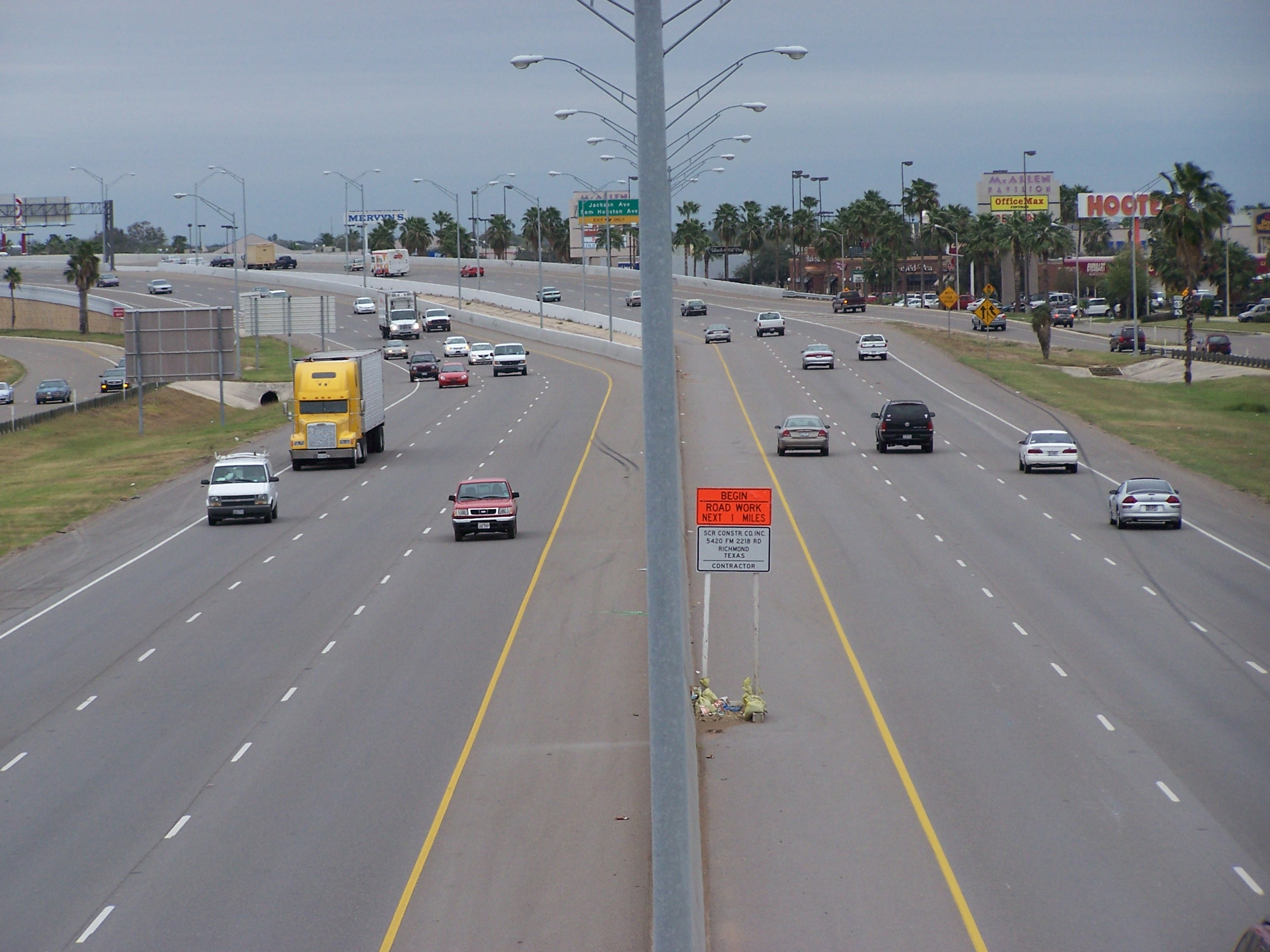 Moderate traffic along US Highway 83 through the city of McAllen, Texas